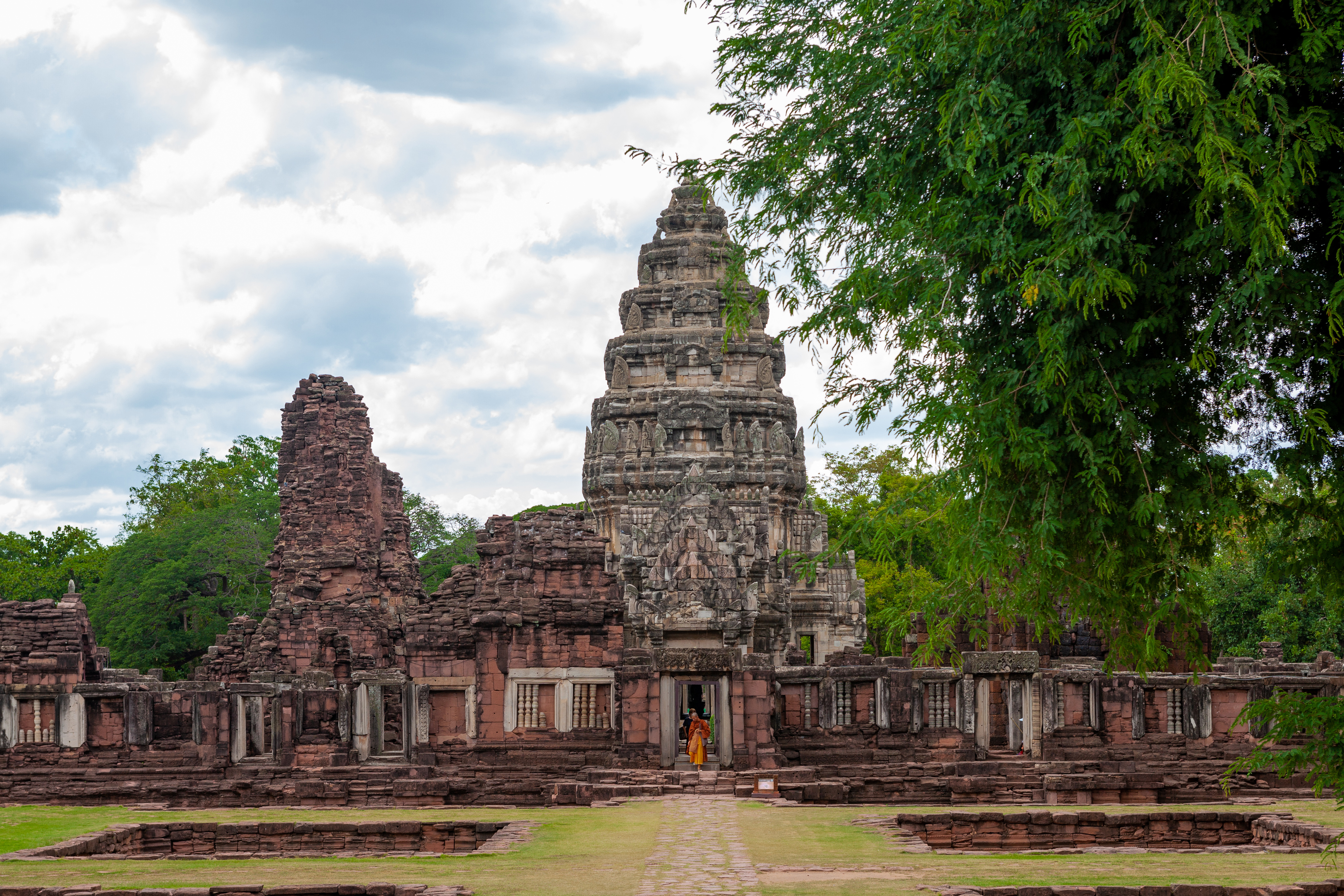 Phimai temple, in Phimai city, Northeast Thailand.